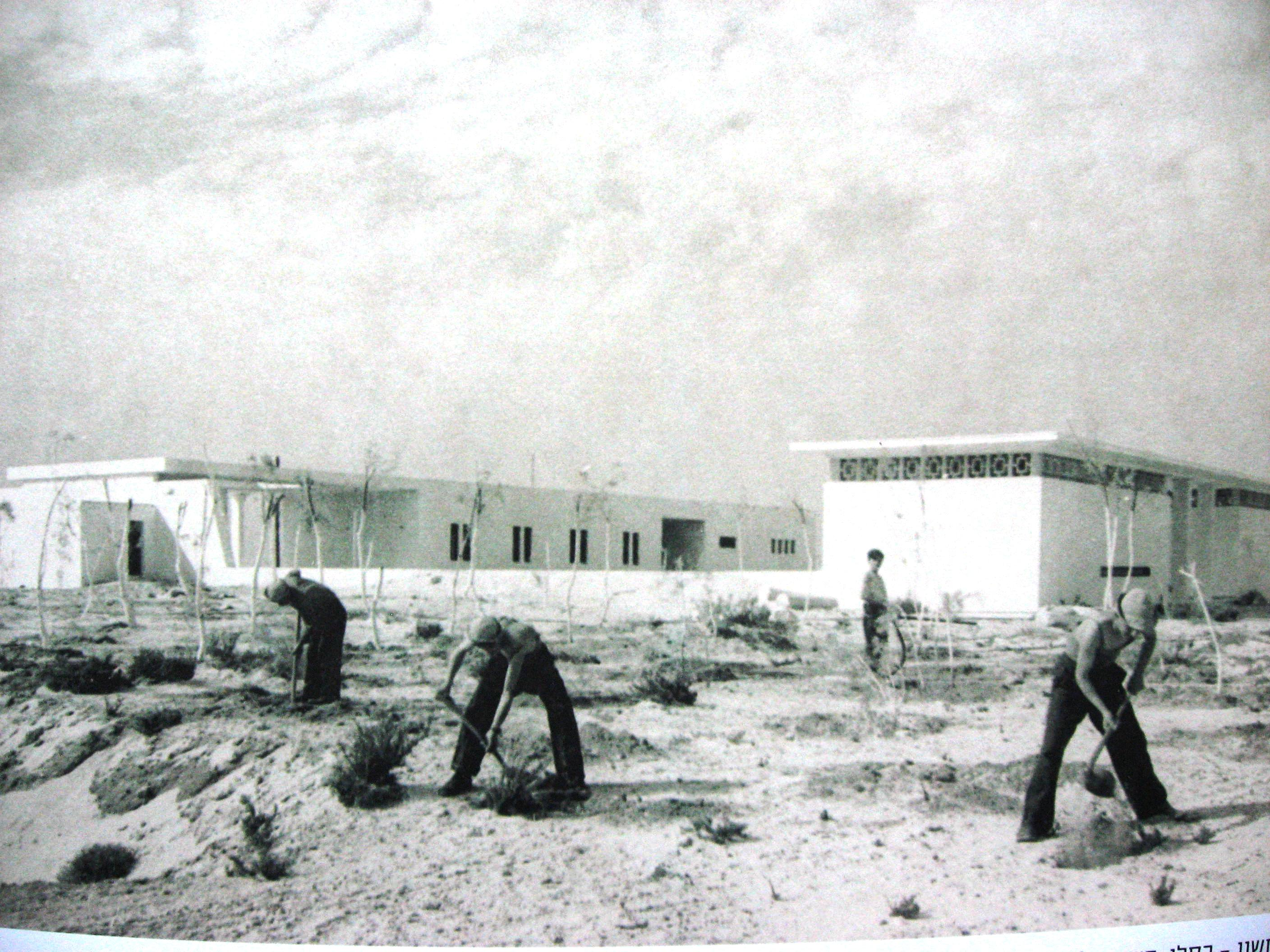 Hannah Szenes memorial center, 1950, Geography of Israel